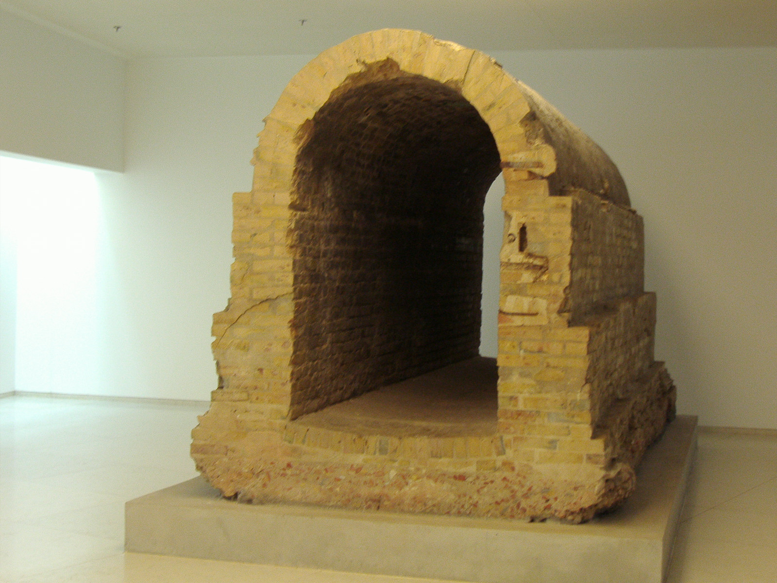 Jakob-Kaiser-Haus: section of the submontane tunnel formerly linking the Reichstagspräsidentenpalais in Berlin with the Reichstag building; on display at Jakob-Kaiser-Haus